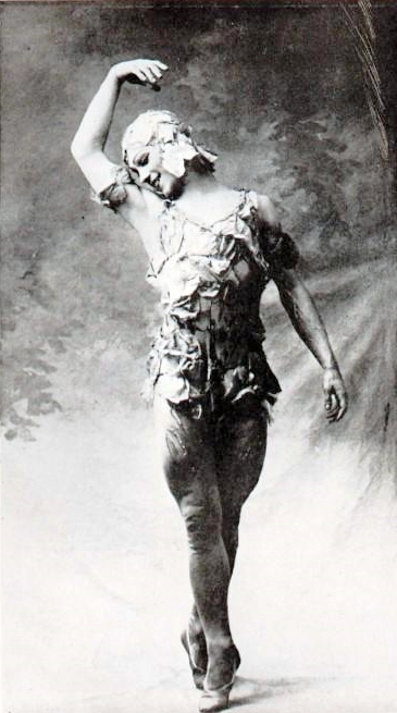 Vaslav Nijinsky (1890–1950) in Le Spectre de la Rose by Michel Fokine (1880-1942). Costume by Leon Bakst (1867-1924).